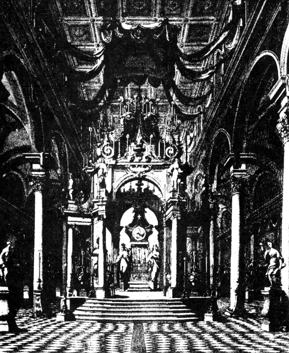 Funerals of Grand Duke Gian Gastone de' Medici